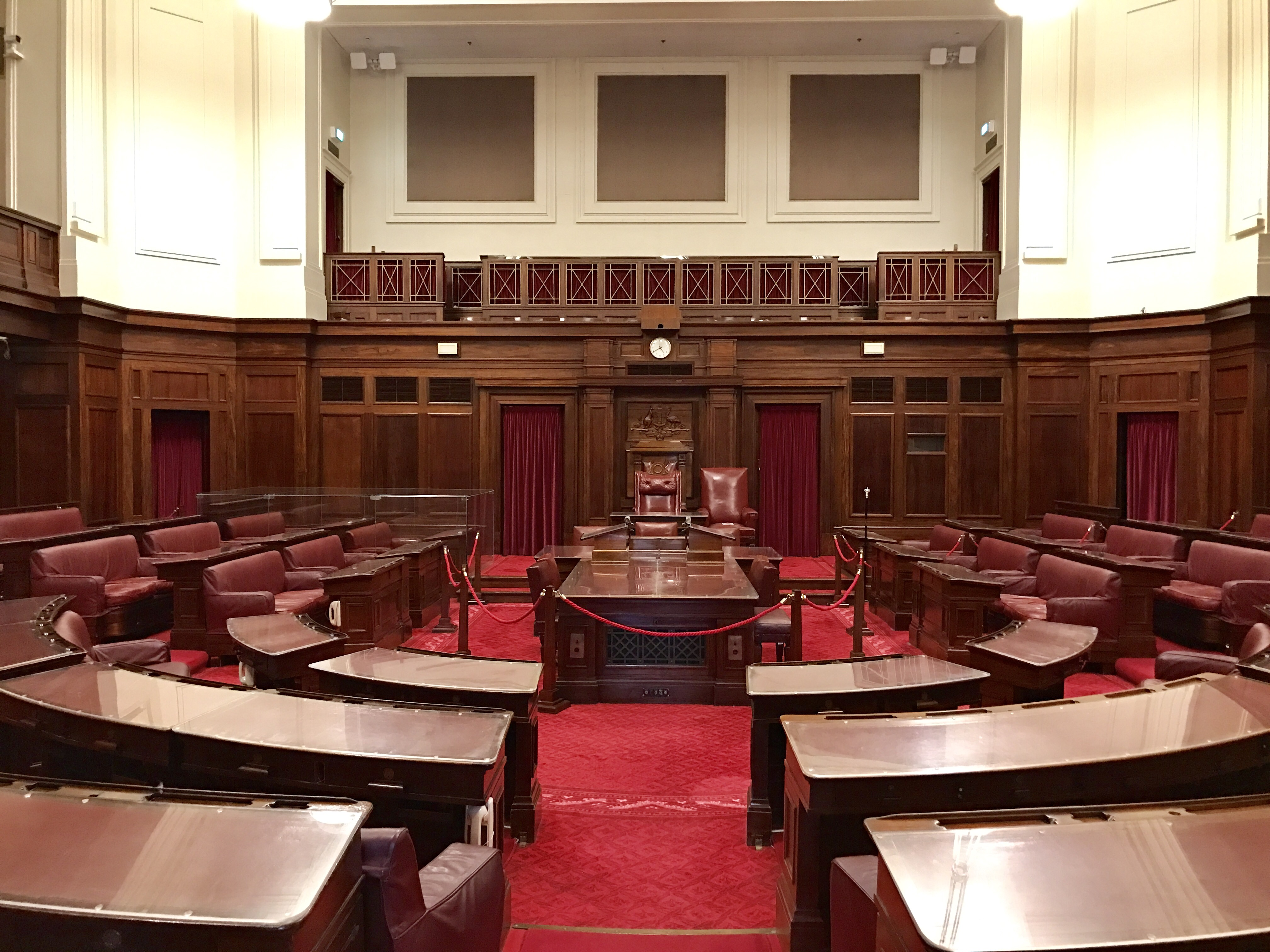 Australian Senate chamber, Old Parliament House, Canberra